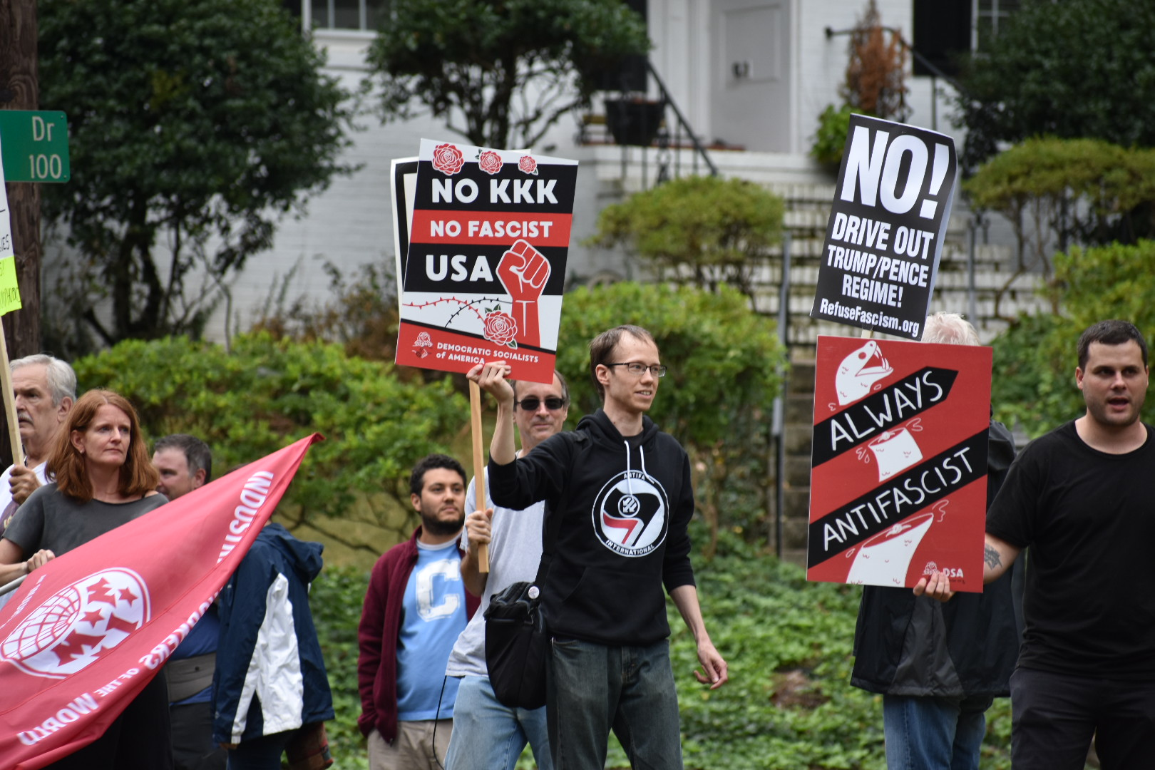 When Trump came to Greensboro for a fundraiser, over a hundred residents showed up in protest or support.